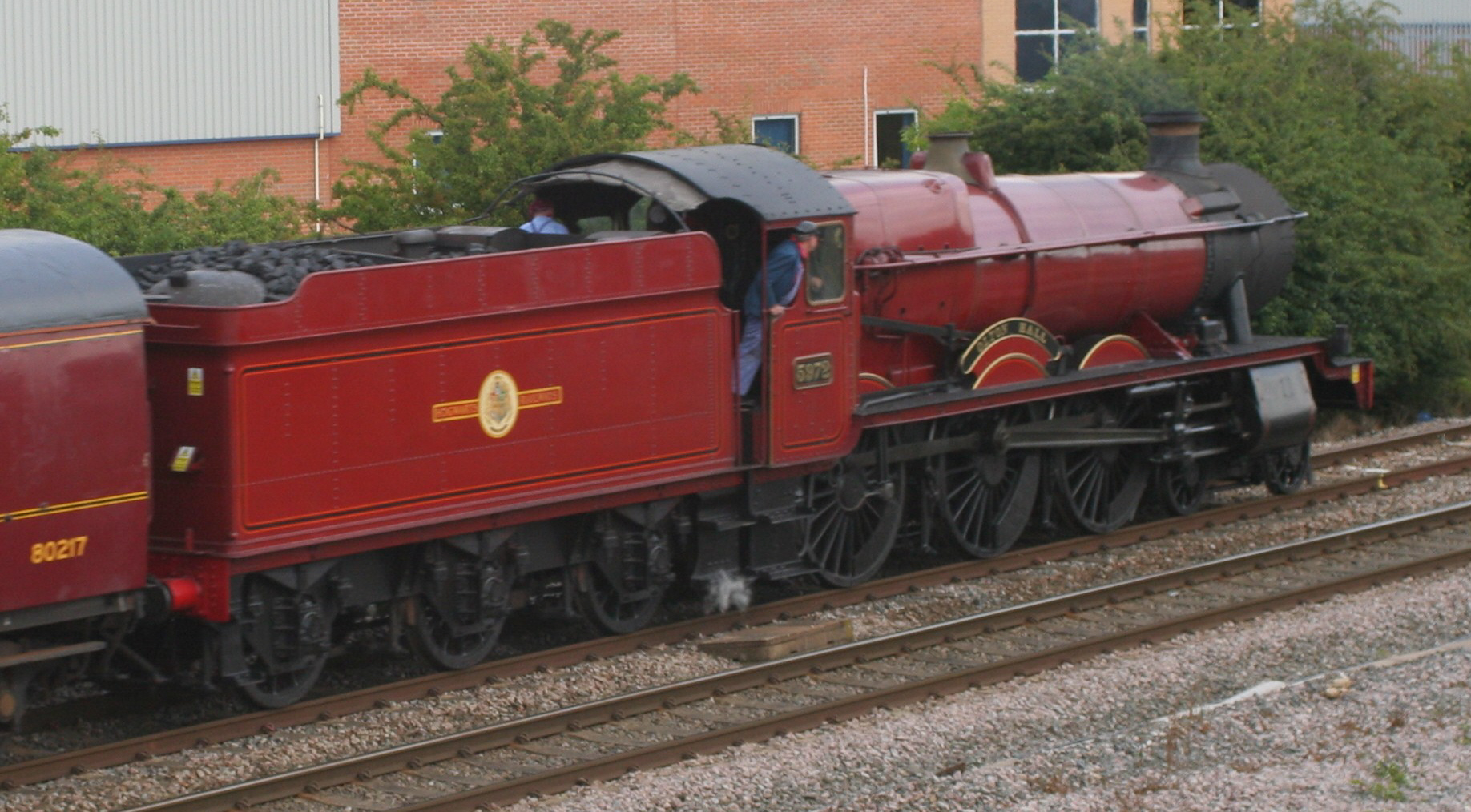 Steam locomotive GWR Hall Class No. 5972 Olton Hall en route from Tyseley to York NRM